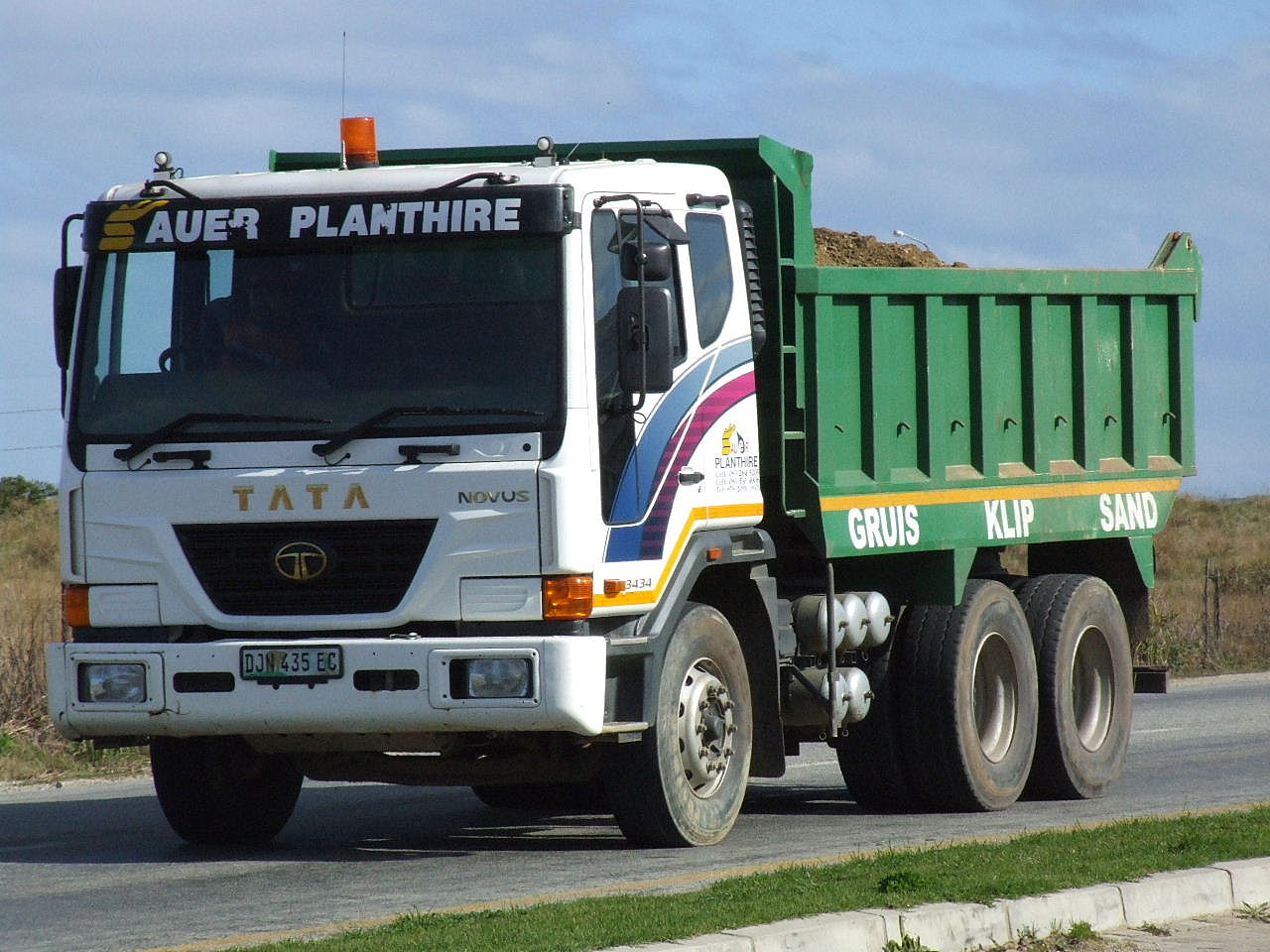 Tata Novus 3434